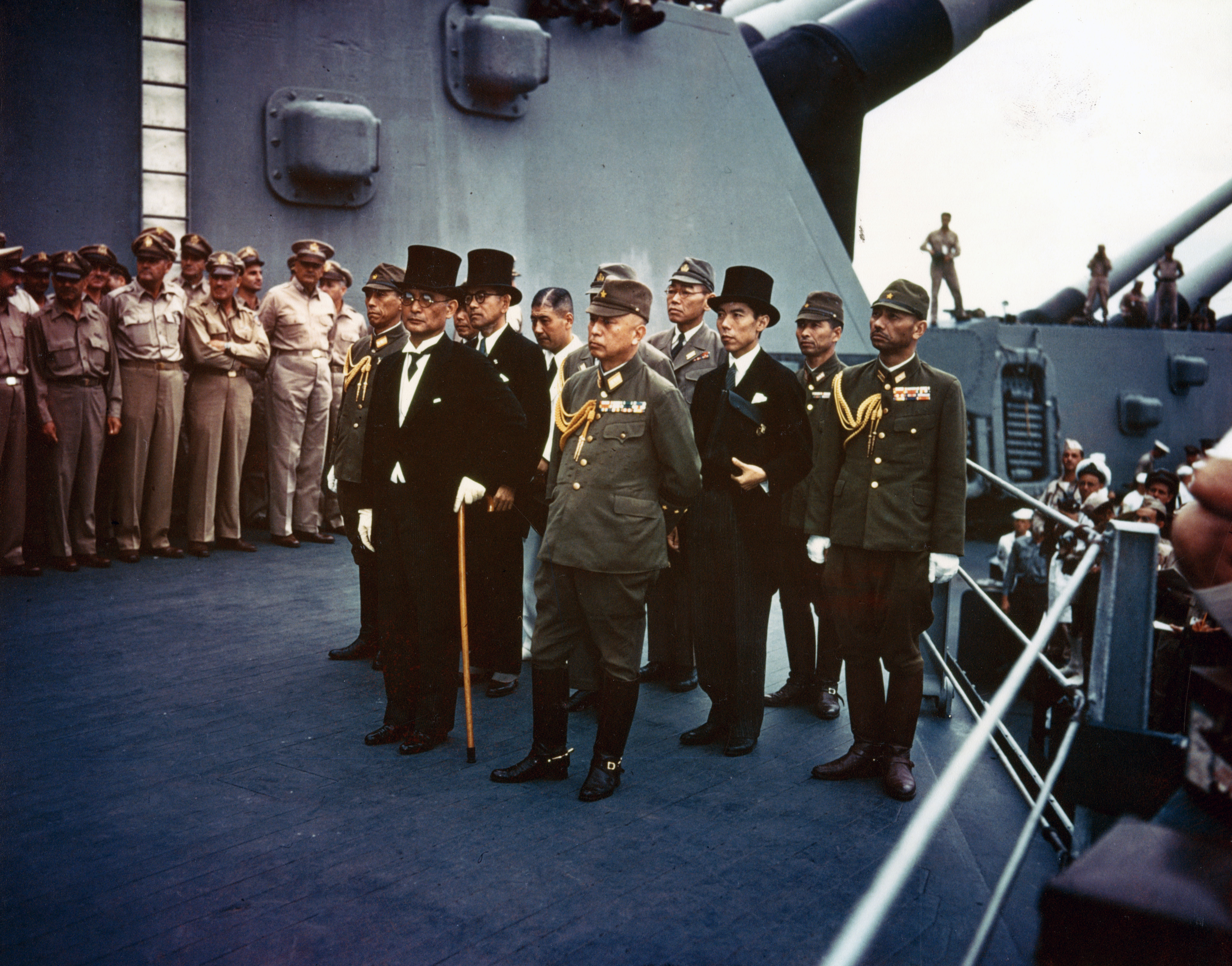 Surrender of Japan, Tokyo Bay, 2 September 1945: Representatives of the Empire of Japan on board USS Missouri (BB-63) during the surrender ceremonies. Standing in front are: Foreign Minister Mamoru Shigemitsu (wearing top hat) and General Yoshijiro Umezu, Chief of the Army General Staff. Behind them are three representatives each of the Foreign Ministry, the Army and the Navy. They include, in middle row, left to right: Major General Yatsuji Nagai, Army; Katsuo Okazaki, Foreign Ministry; Rear Admiral Tadatoshi Tomioka, Navy; Toshikazu Kase, Foreign Ministry, and Lieutenant General Suichi Miyakazi, Army. In the back row, left to right (not all are visible): Rear Admiral Ichiro Yokoyama, Navy; Saburo Ota, Foreign Ministry; Katsuo Shiba, Navy, and Kaziyi Sugita, Army. (Identities those in second and third rows are from an annotated photograph in Naval Historical Center files.)